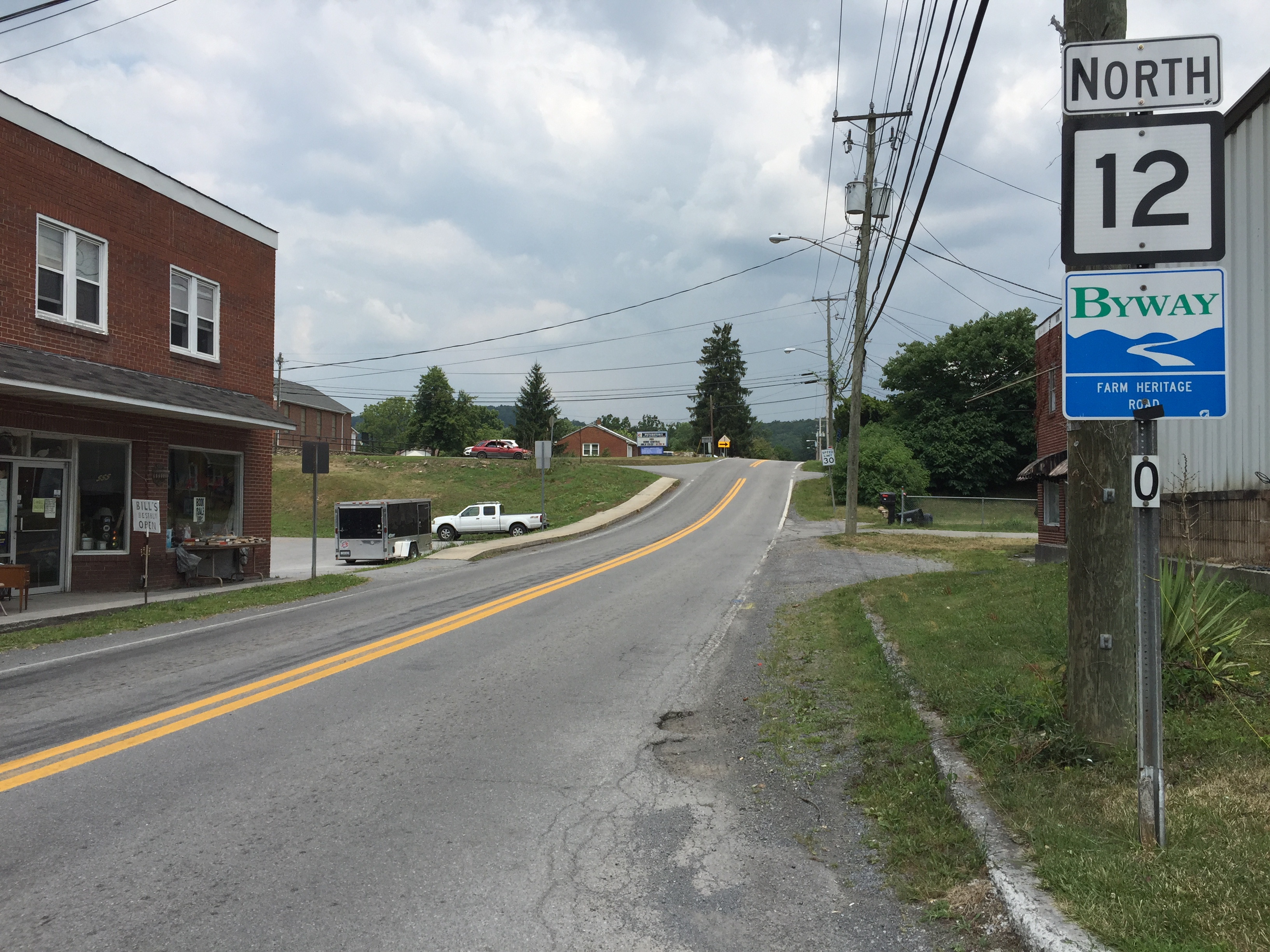 View north along West Virginia State Route 12 (Water Street) at U.S. Route 219 (Market Street) in Peterstown, Monroe County, West Virginia